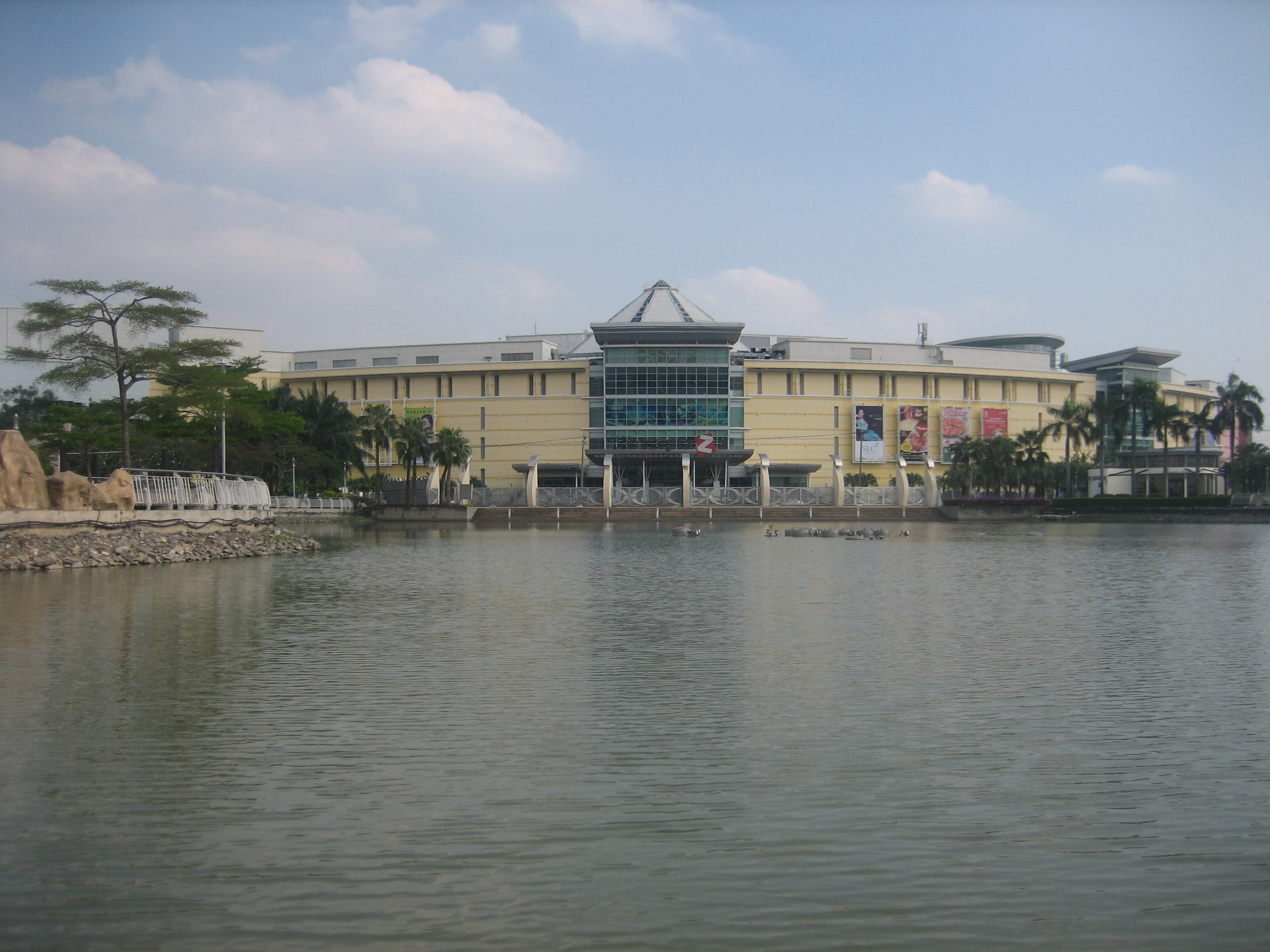 CentralPlaza Rama 2 Bangkok 01.03.2018